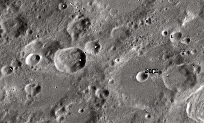 Zagut lunar crater as seen from Earth with satellite craters labeled